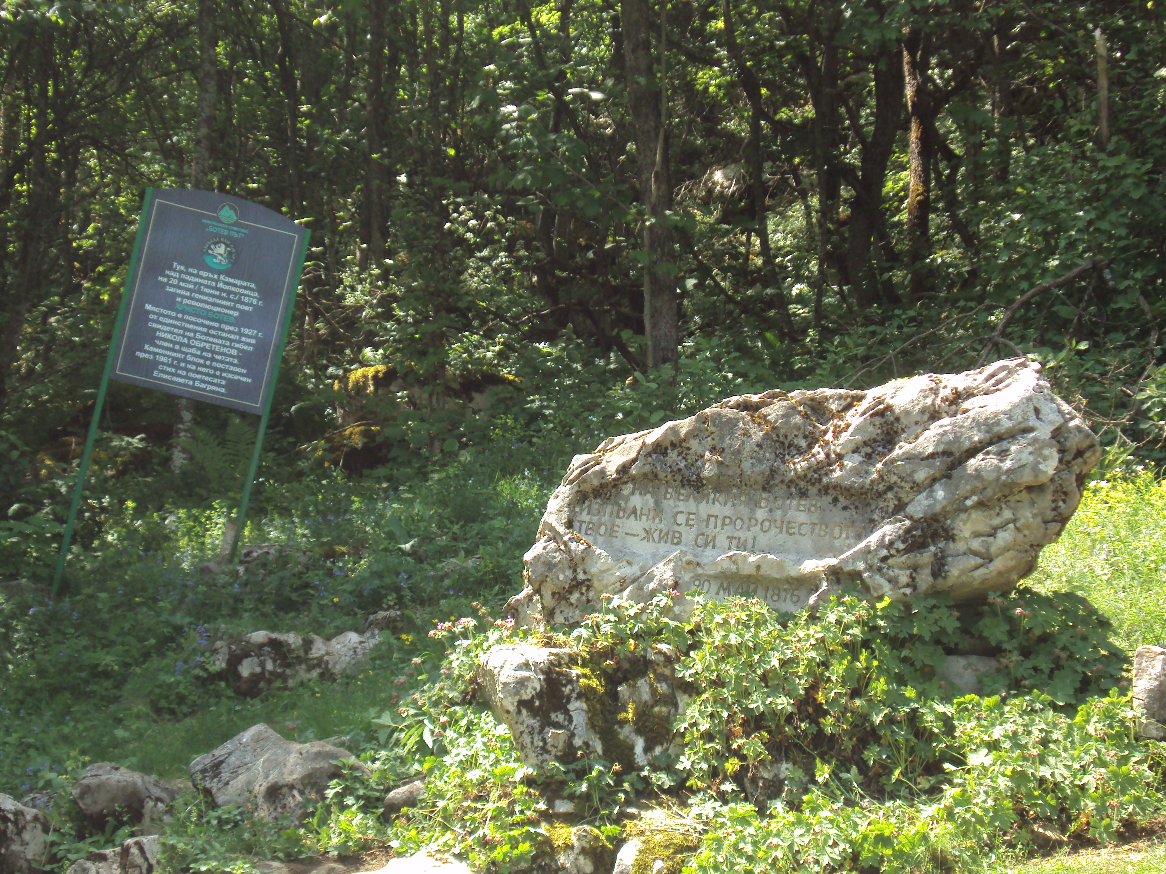 Death place of Hristo Botev, Okolchitza